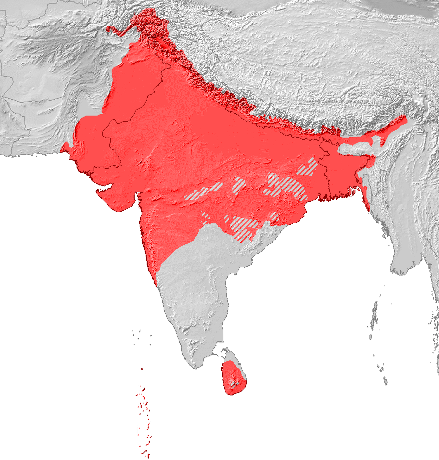 Area where Indo-Aryan languages are spoken